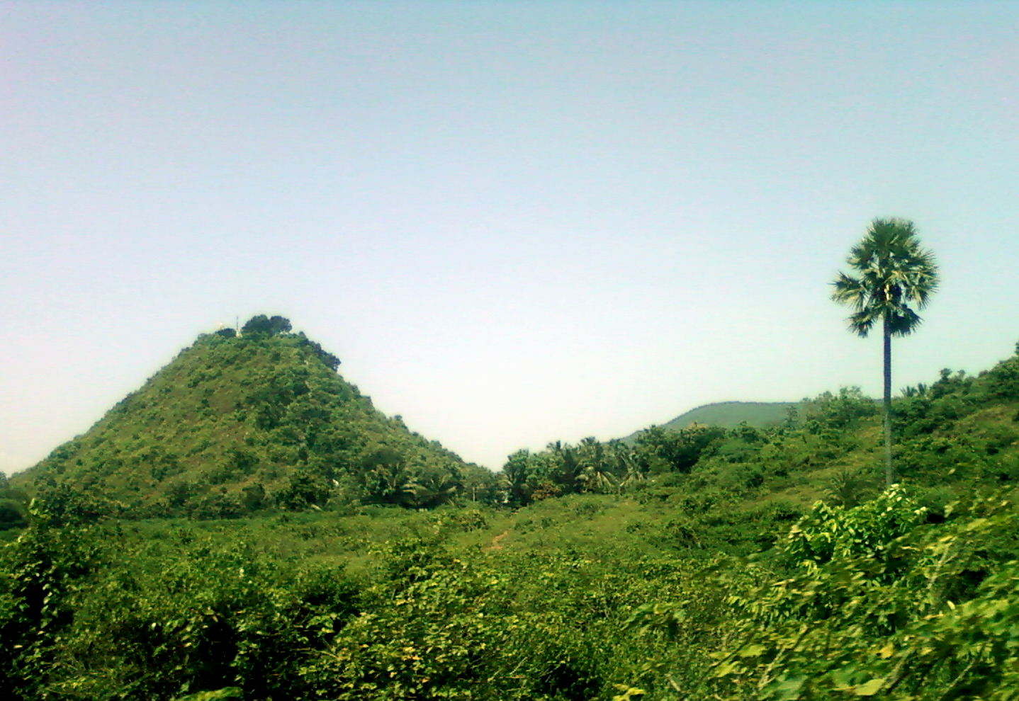 Scenic view at Anakapalle in Visakhapatnam district